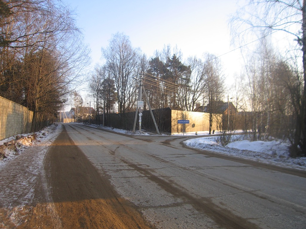 Village Salkovo, Odintsovo district, Moscow region.